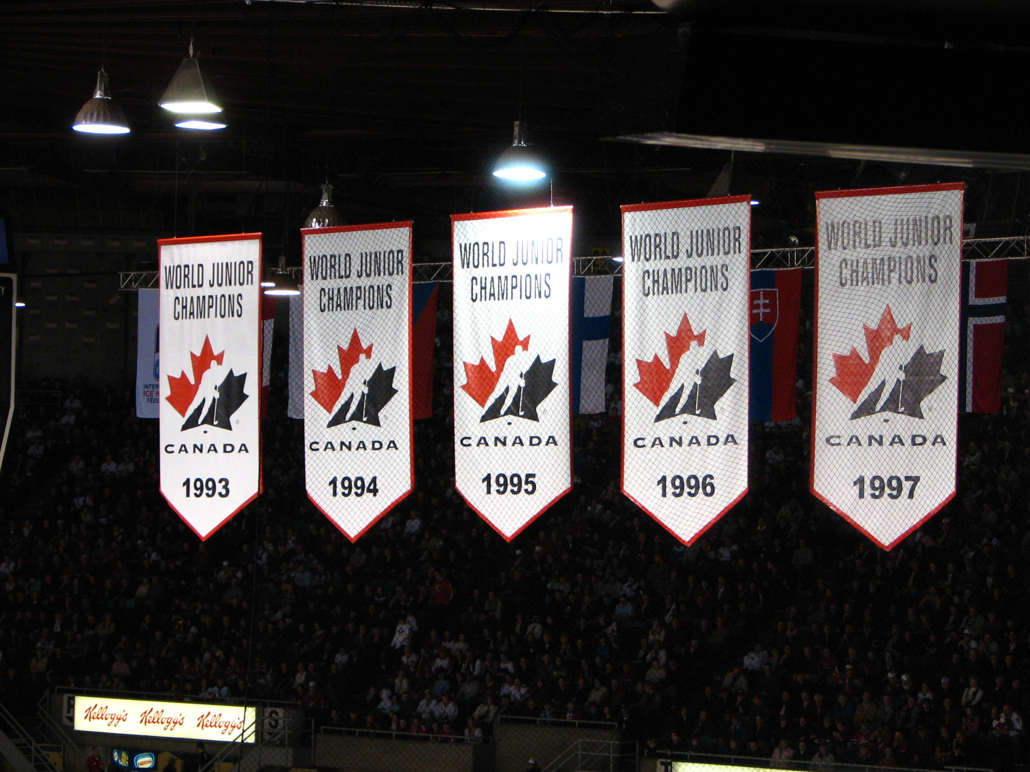 banners as seen at world juniors at pacific coliseum